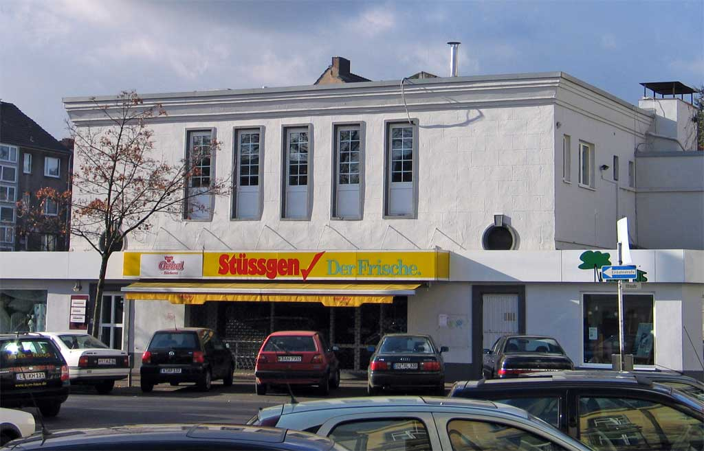 Stüssgen-Supermarket in Cologne